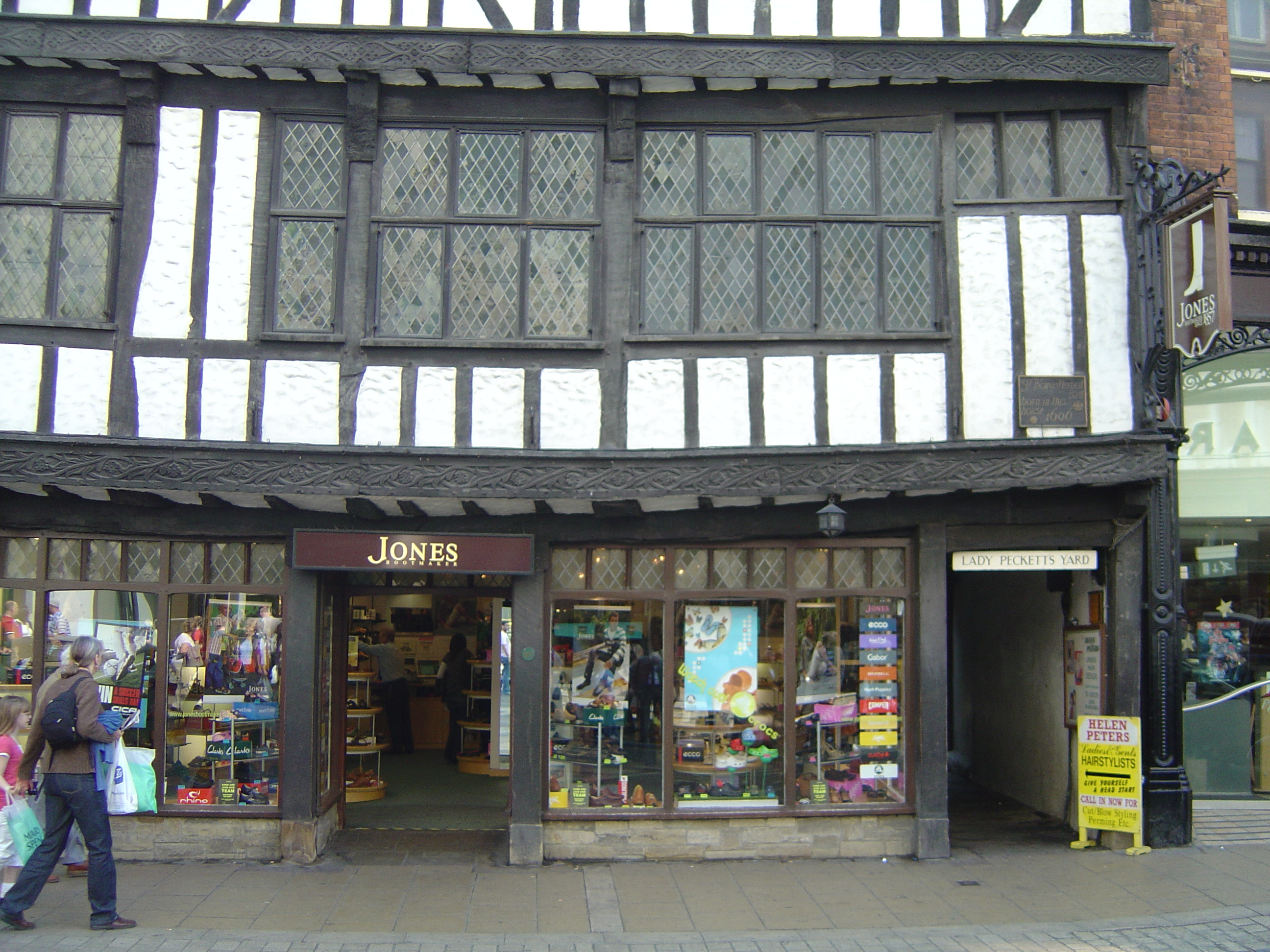 Entrance to Lady Peckett's Yard: one of the Snickelways of York